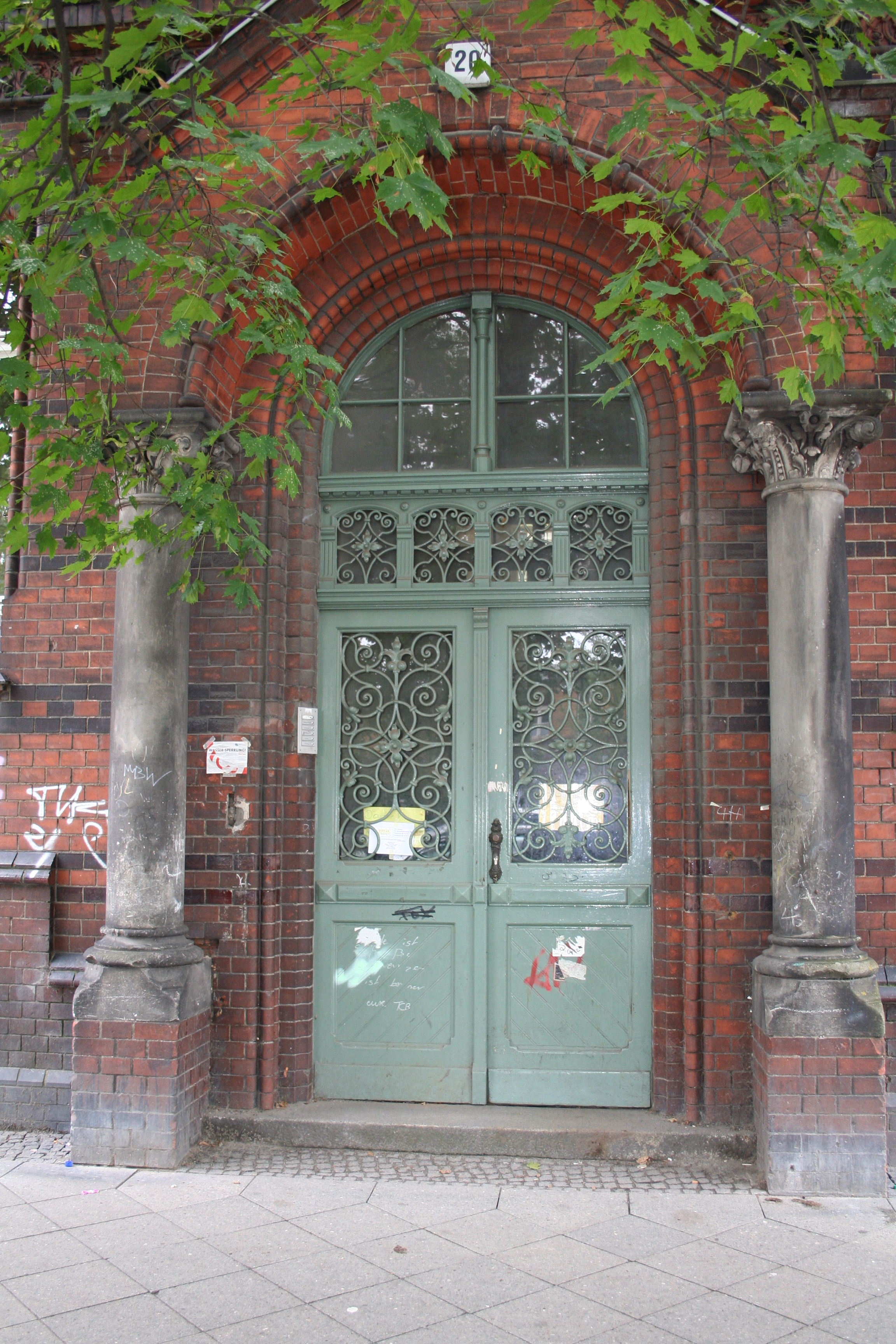 Main gate to the former residential house of James-Krüss primary school in Berlin, Moabit.